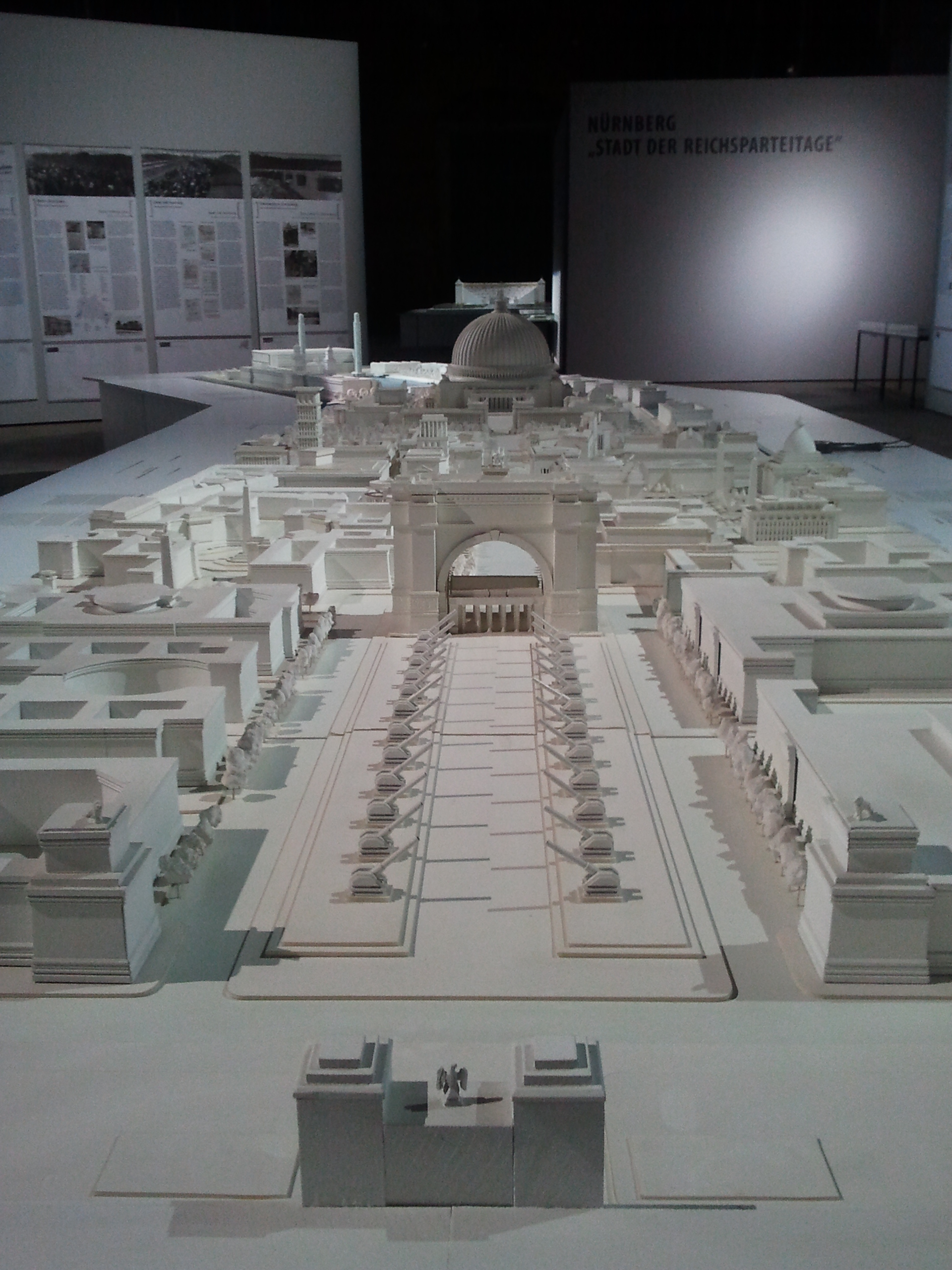 North-South Axis of the "Welthauptstadt Germania" with the triumphal arch and the Volkshalle. The entire architectural model is composed of three parts resp. segments: The central part (from the triumphal arch to the Volkshalle) was built for the 2004 movie Downfall (Oliver Hirschbiegel) and is not a fully accurate realization of the Generalbauinspektor's plan (including a shortening of the Arch-Volkshalle section). For the 2005 movie "Speer und Er" (Heinrich Breloer) the model was expanded with the significantly more precise southern and northern railway stations and its forecourts. Part of the Myth "Germania" and the "Temple City" of Nuremberg exhibition at the Documentation Center in Nuremberg (April 7, 2011 - September 11, 2011).